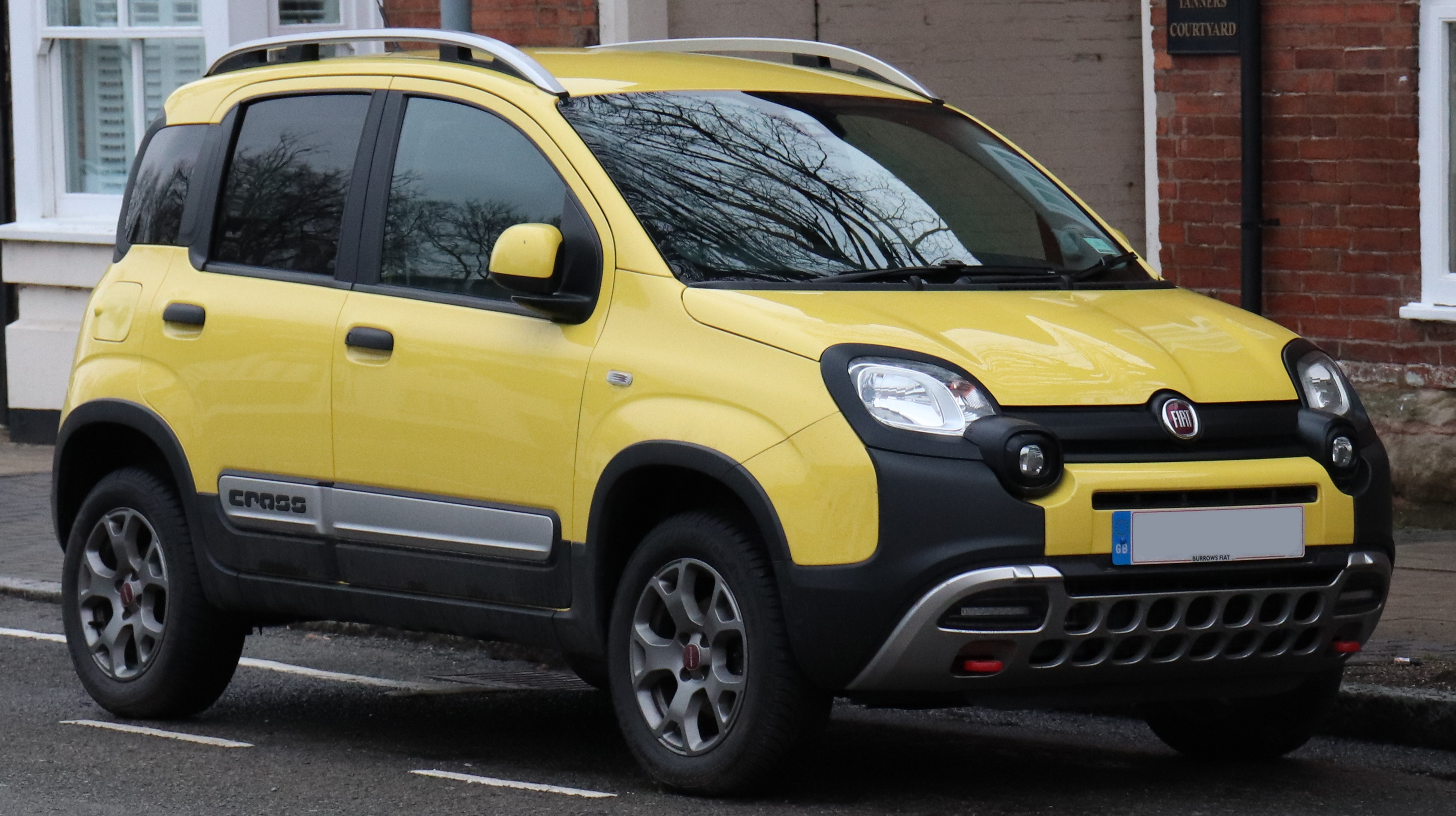 2015 Fiat Panda Cross TwinAir 900cc Front Taken in Warwick